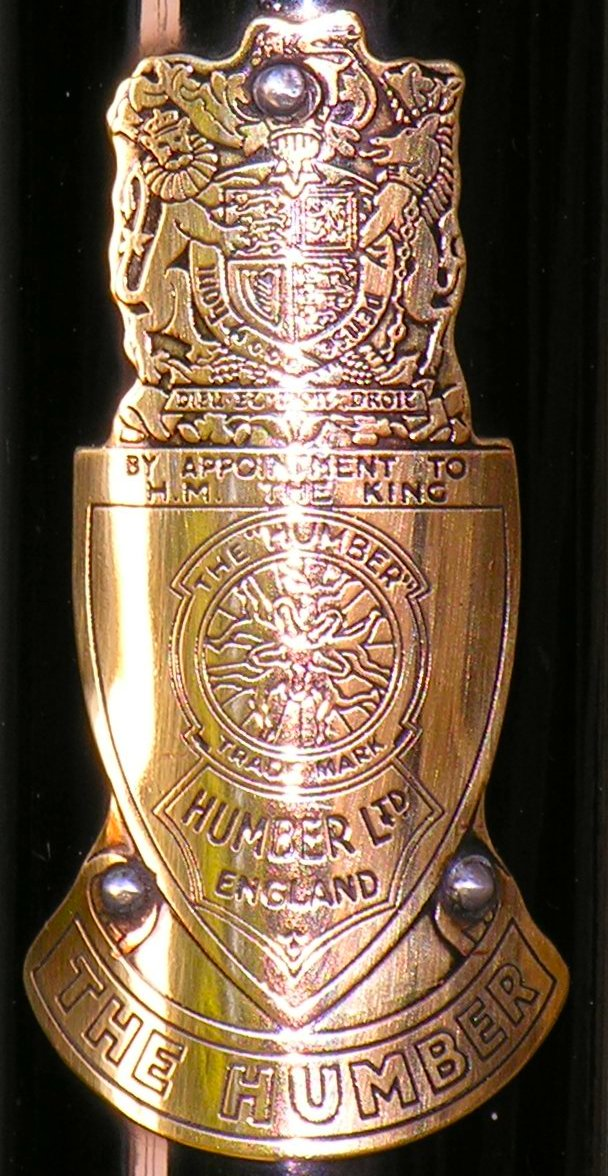 Headbadge from a Humber bicycle